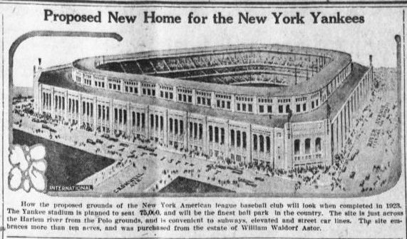 Model of the (then) new Yankee Stadium to be built in 1925. Lightened, contrast adjusted and cropped using Gimp.